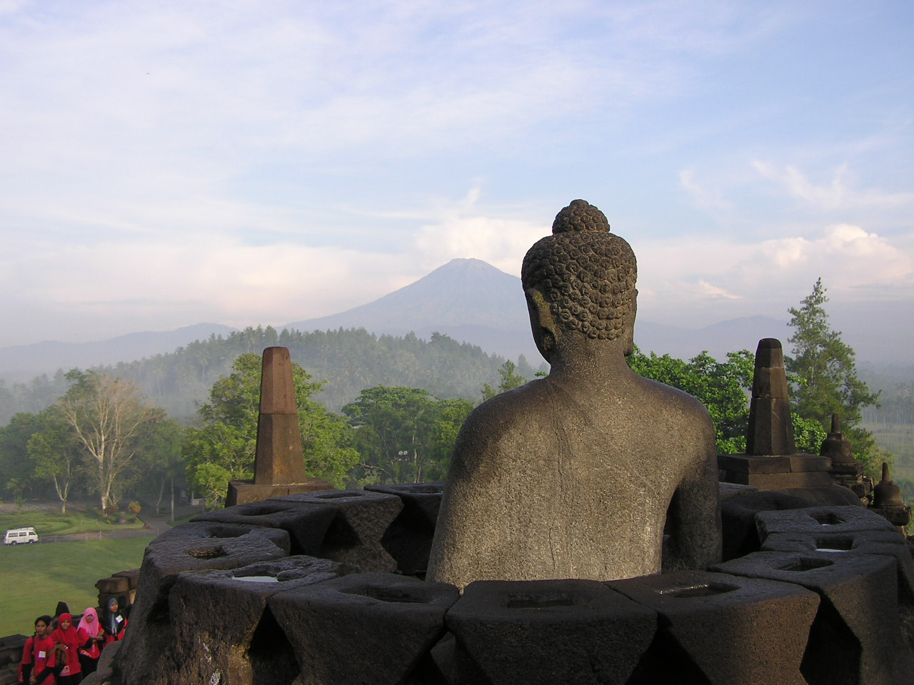 Buddha in an open stupa, Borobudur, Indonesia .